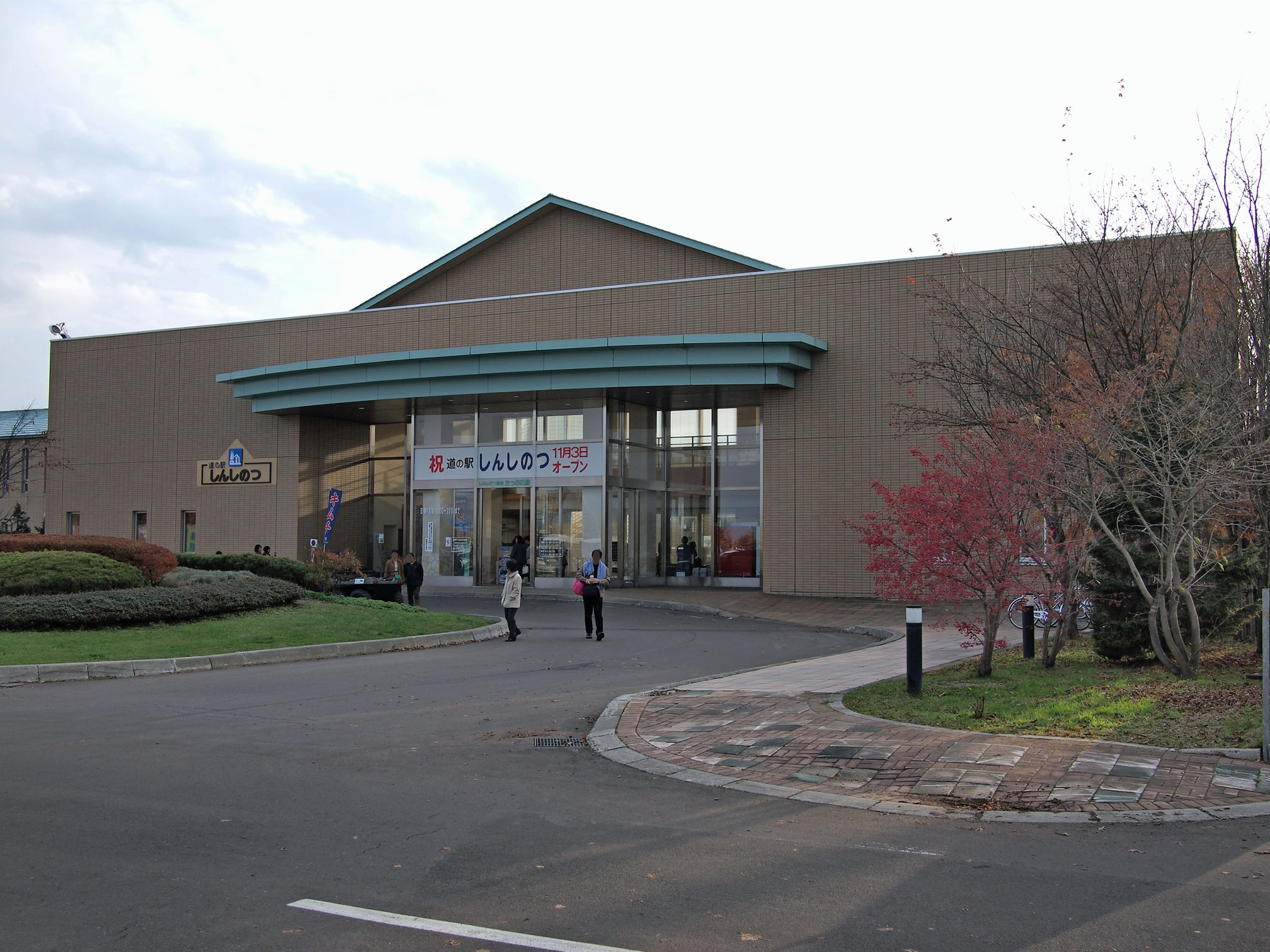 Roadside Station Shinshinotsu, Shinshinotsu, Hokkaido, Japan